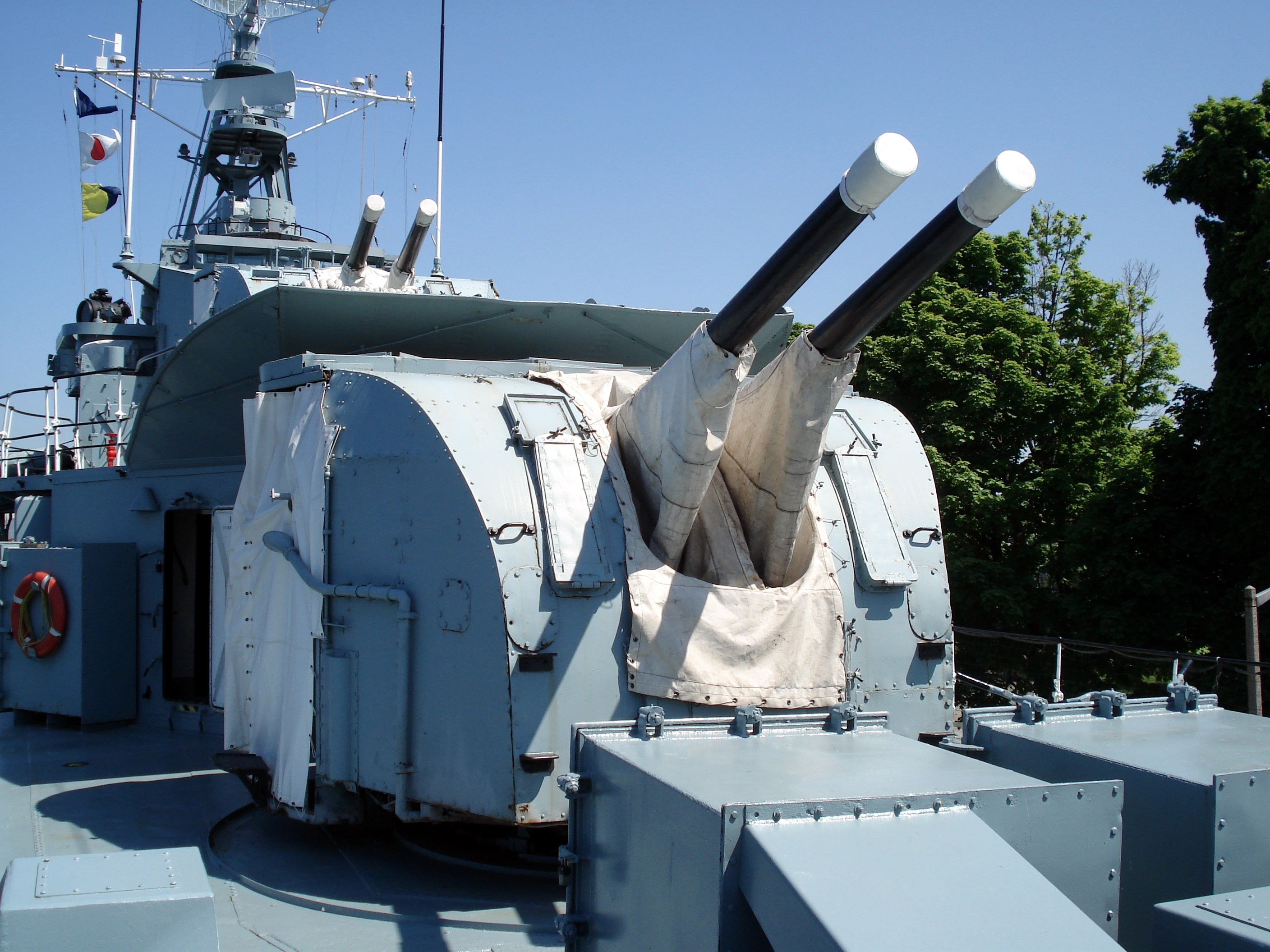 One of two main twin 4 inch Mk 16 gun turrets of destroyer HMCS Haida moored as museum ship at Hamilton, Ontario.